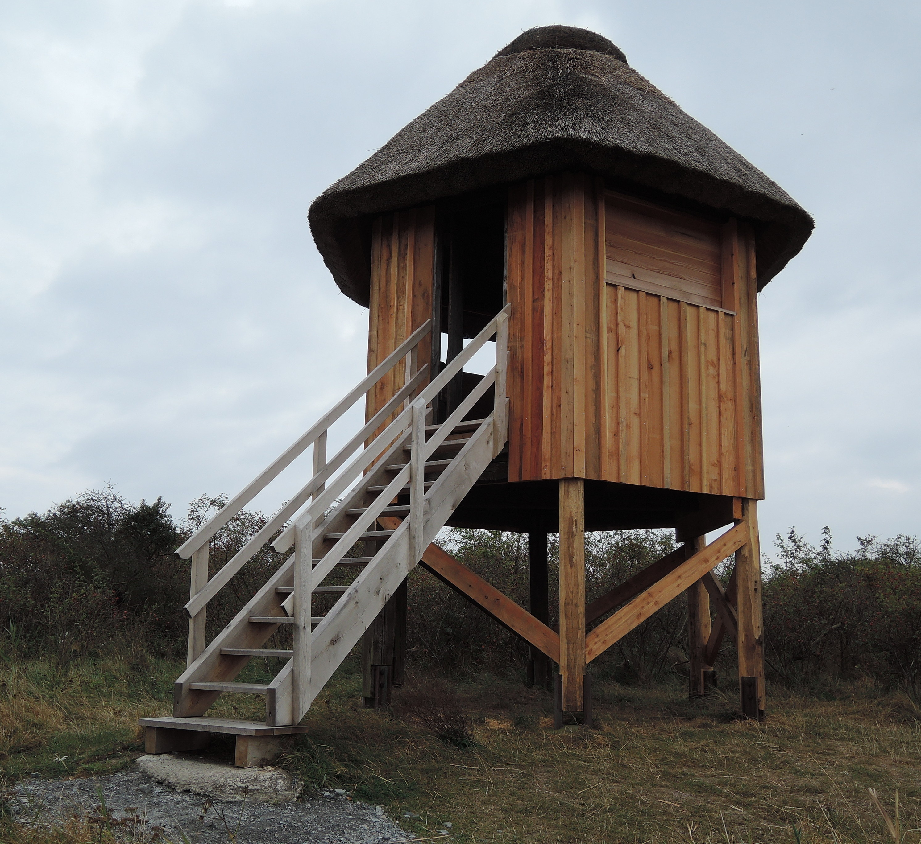 Observation hut Alter Bessin, Hiddensee, Germany